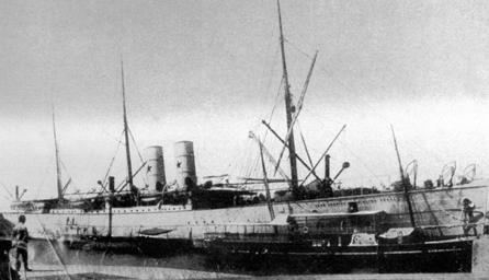 the steamship Nord America